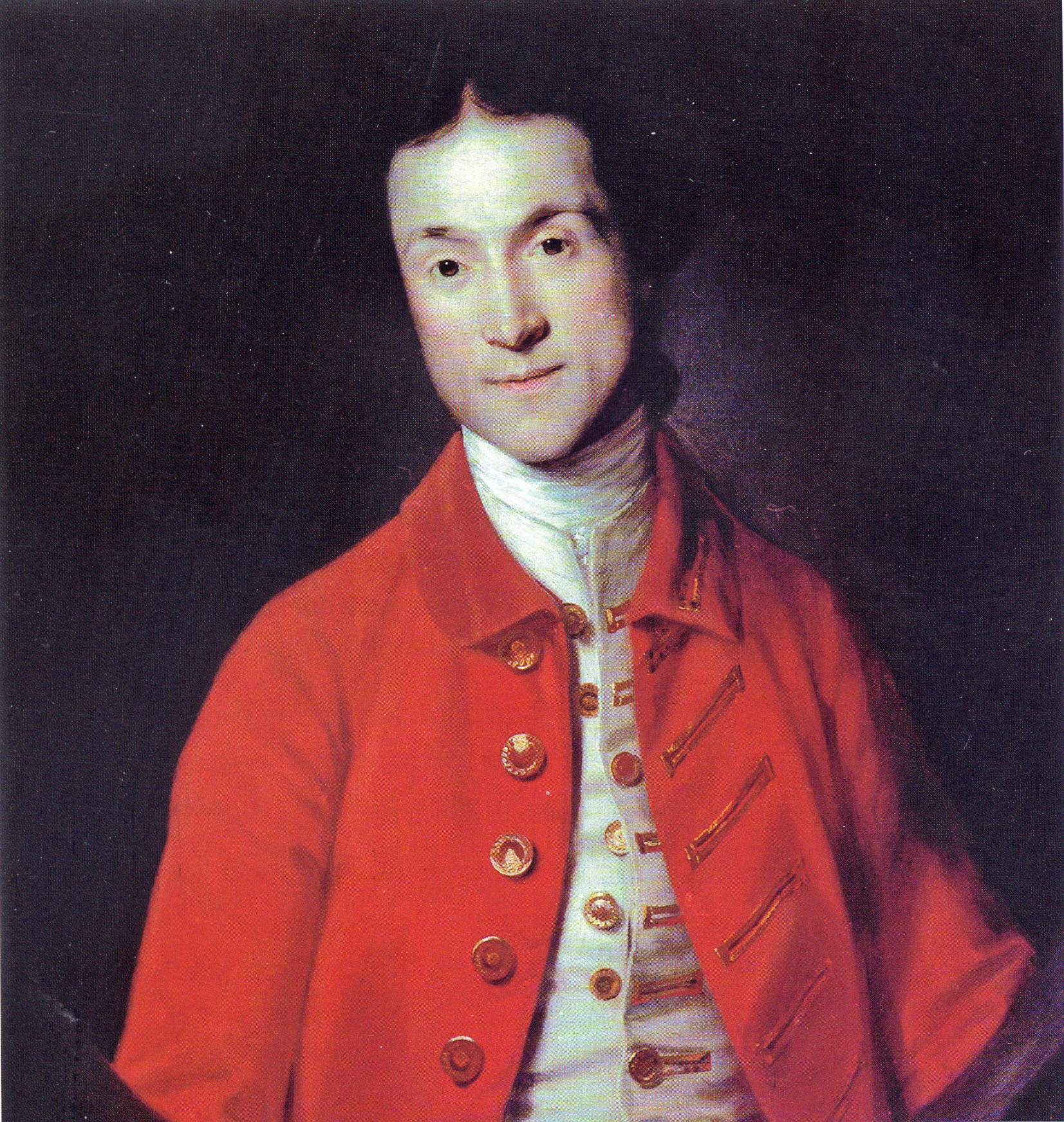 Painting of Richard Grosvenor, 1st Earl Grosvenor, attributed to Joshua Reynolds (1723-92)